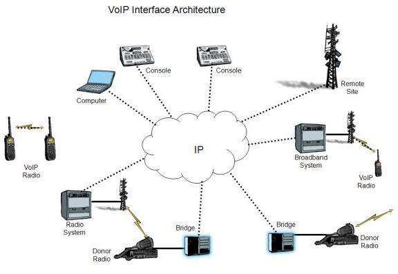 VoIP Interface Architecture